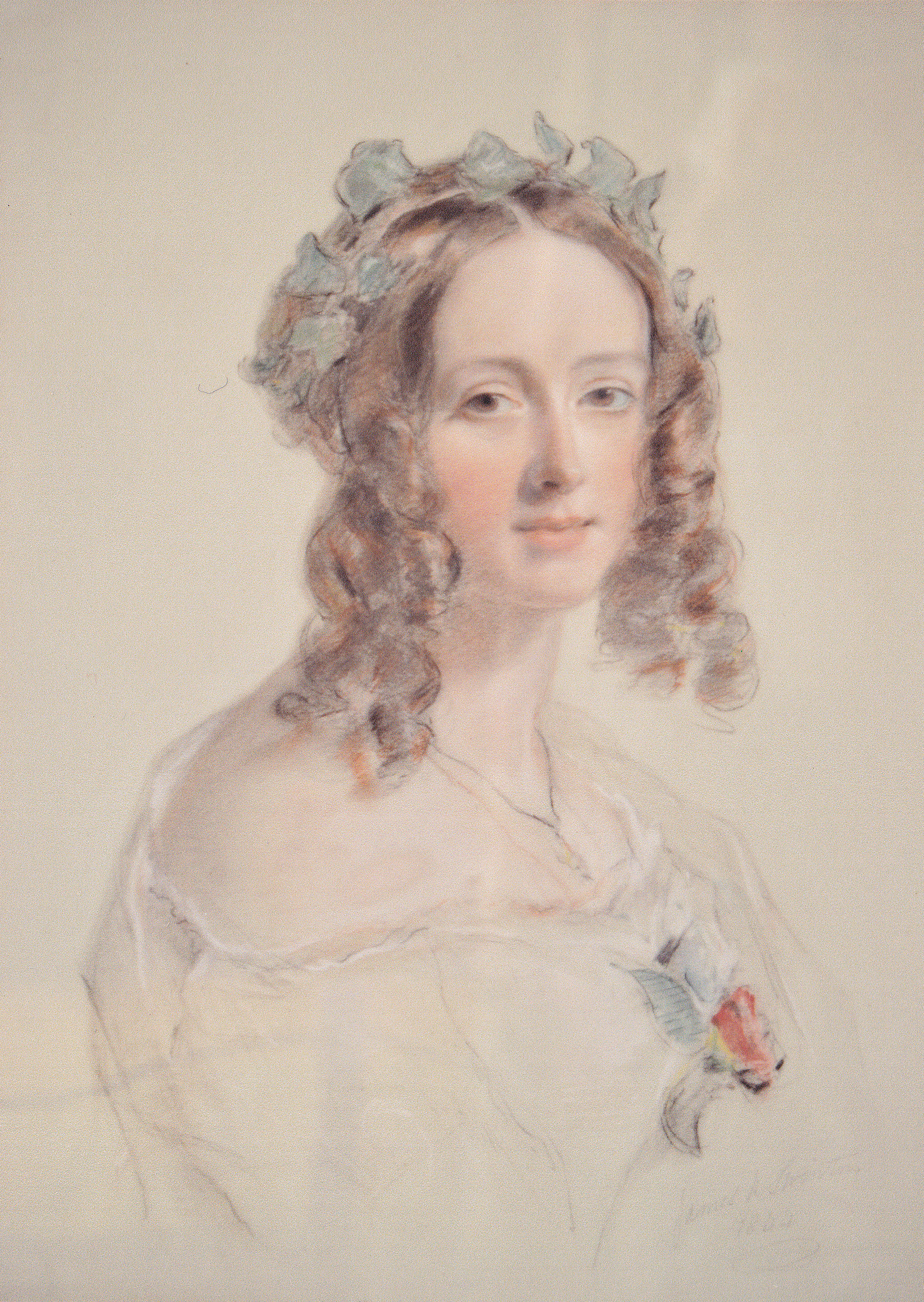 Painting of Lady Grisell Baillie (1822-1891) by James Swinton, 1844. The original hangs in Mellerstain House in the Scottish Borders.